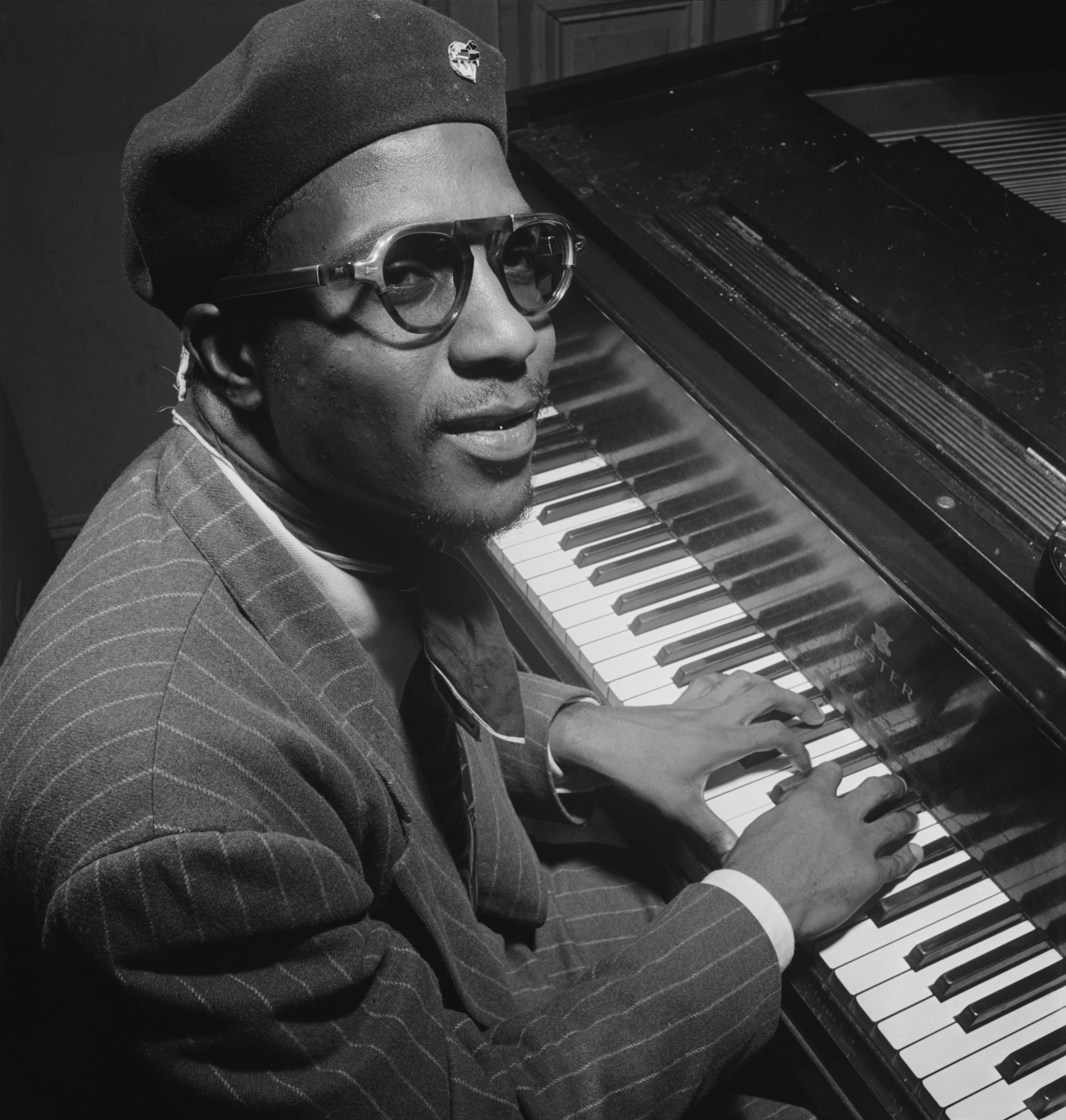 Thelonious Monk, Minton's Playhouse, New York, ca. September 1947. Photograph by William P. Gottlieb